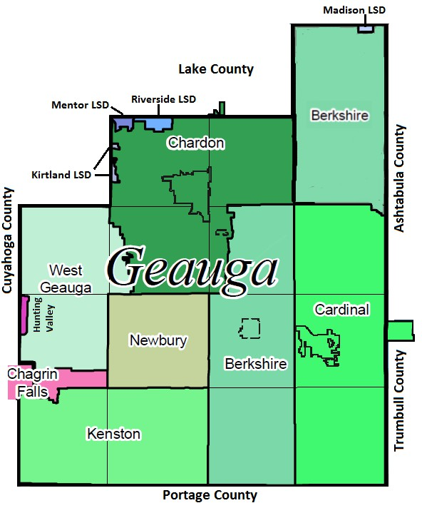 Revised map of Geauga County School districts with Ledgemont School District removed and converted to Berkshire School District